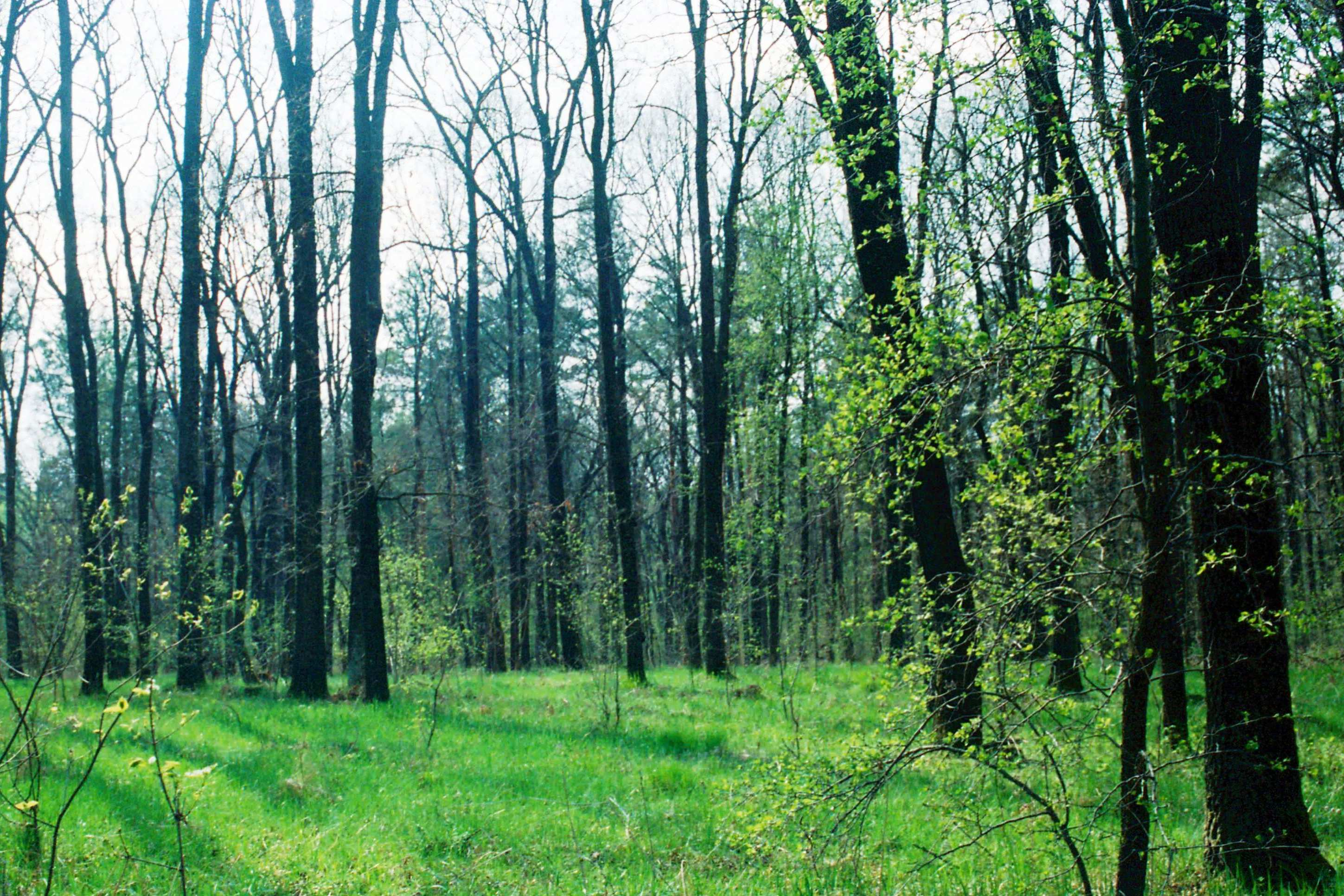 The oak forest near Ozeryshche (Ukraine) village in April.